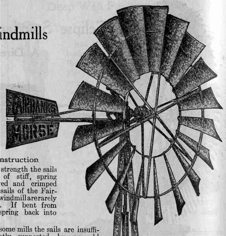 pre-1912 book (second upload was to rotate the image to the proper orientation)